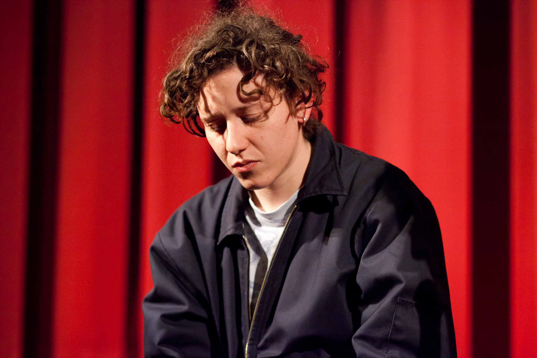 Mica Levi at the 2014 Crossing Europe Film Festival Linz